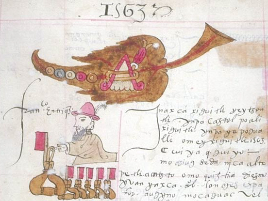 Part of the Codex Sierra, a 16th century Mixtec manuscript.